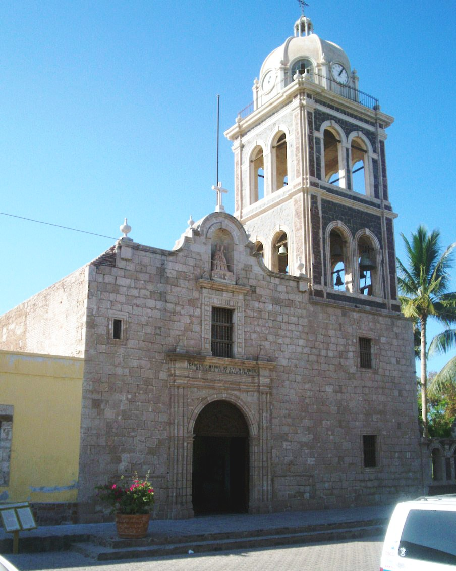 Mission of Our Lady of Loreto